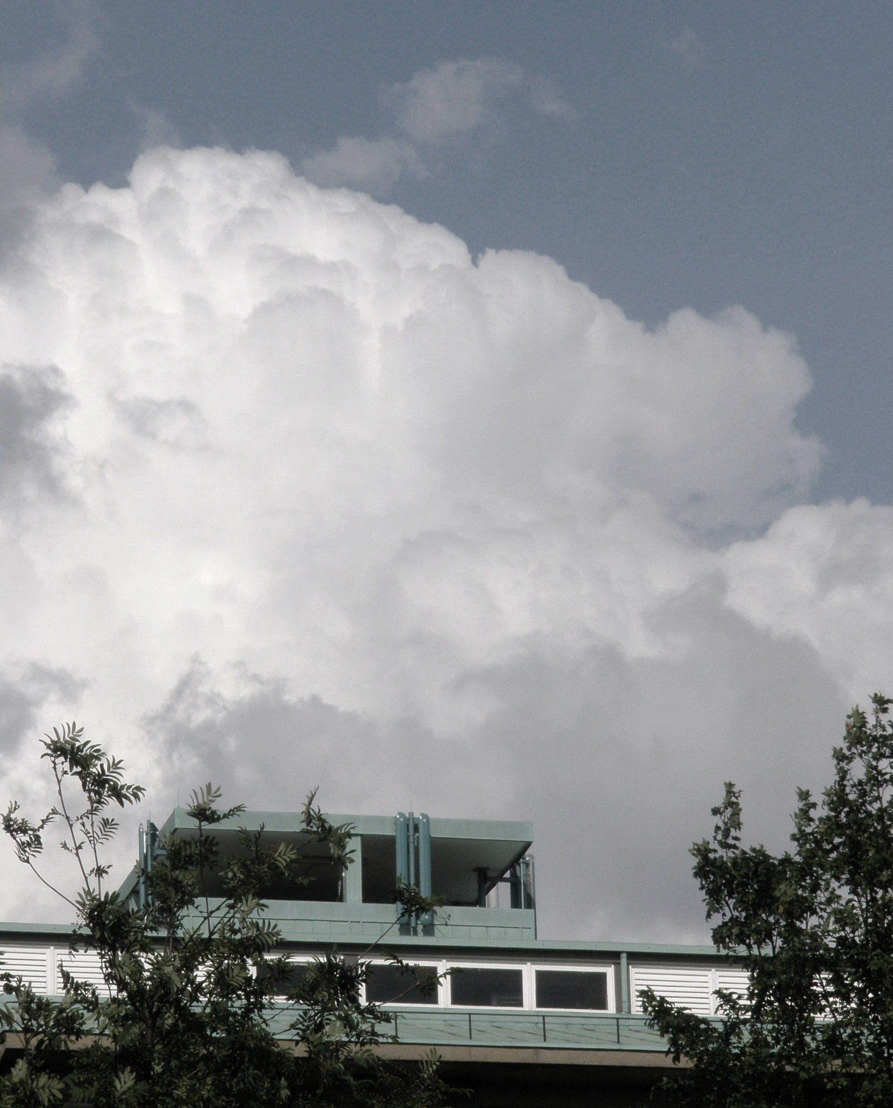 Roof of Simon Building at the University of Manchester, Manchester, UK.